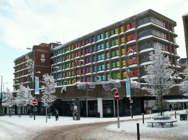 Disused Council Offices Kendray Street